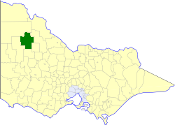 Location of the Shire of Karkarooc within Victoria.